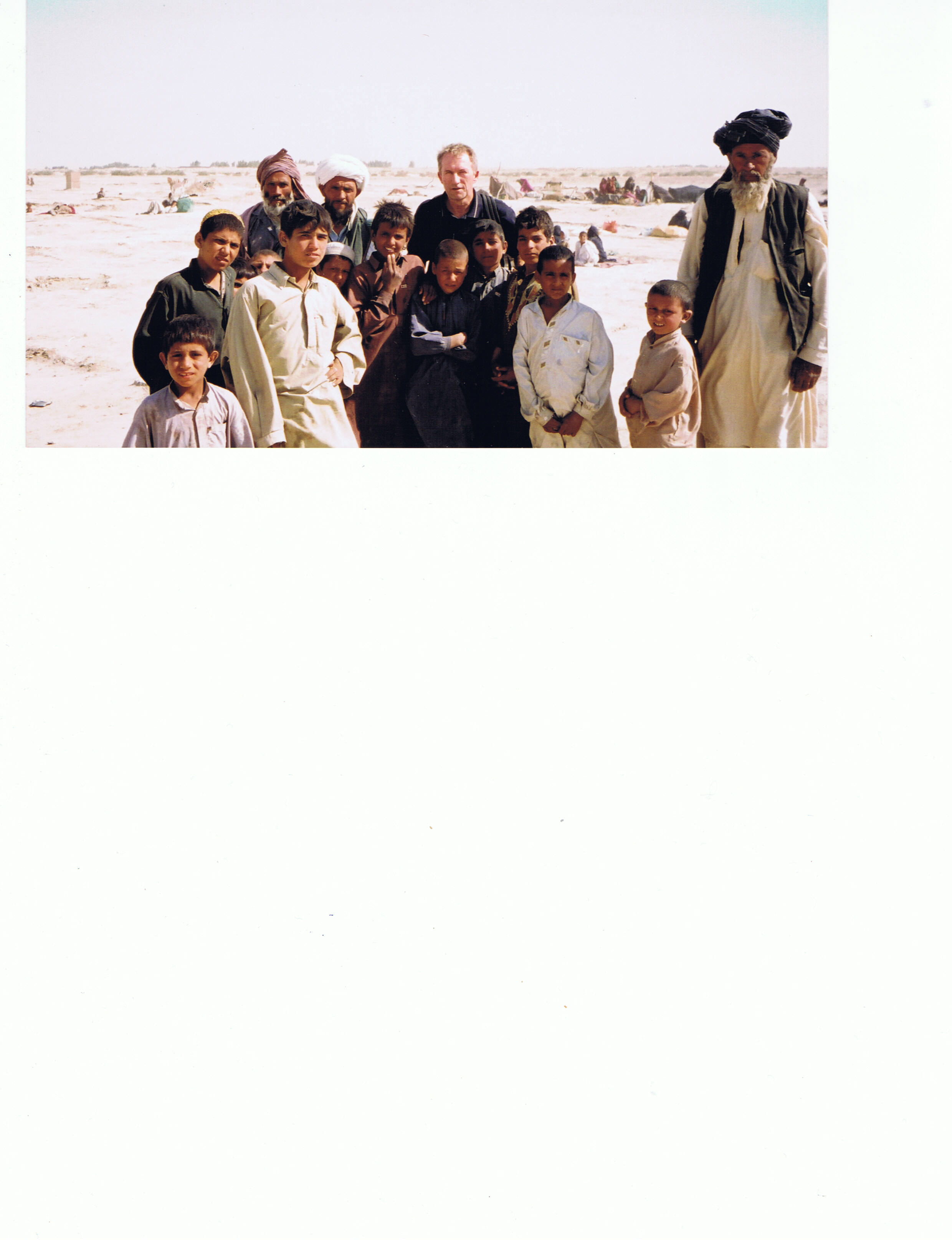 Dave Rutherford visits Afghanistan shortly after the September 11 attacks